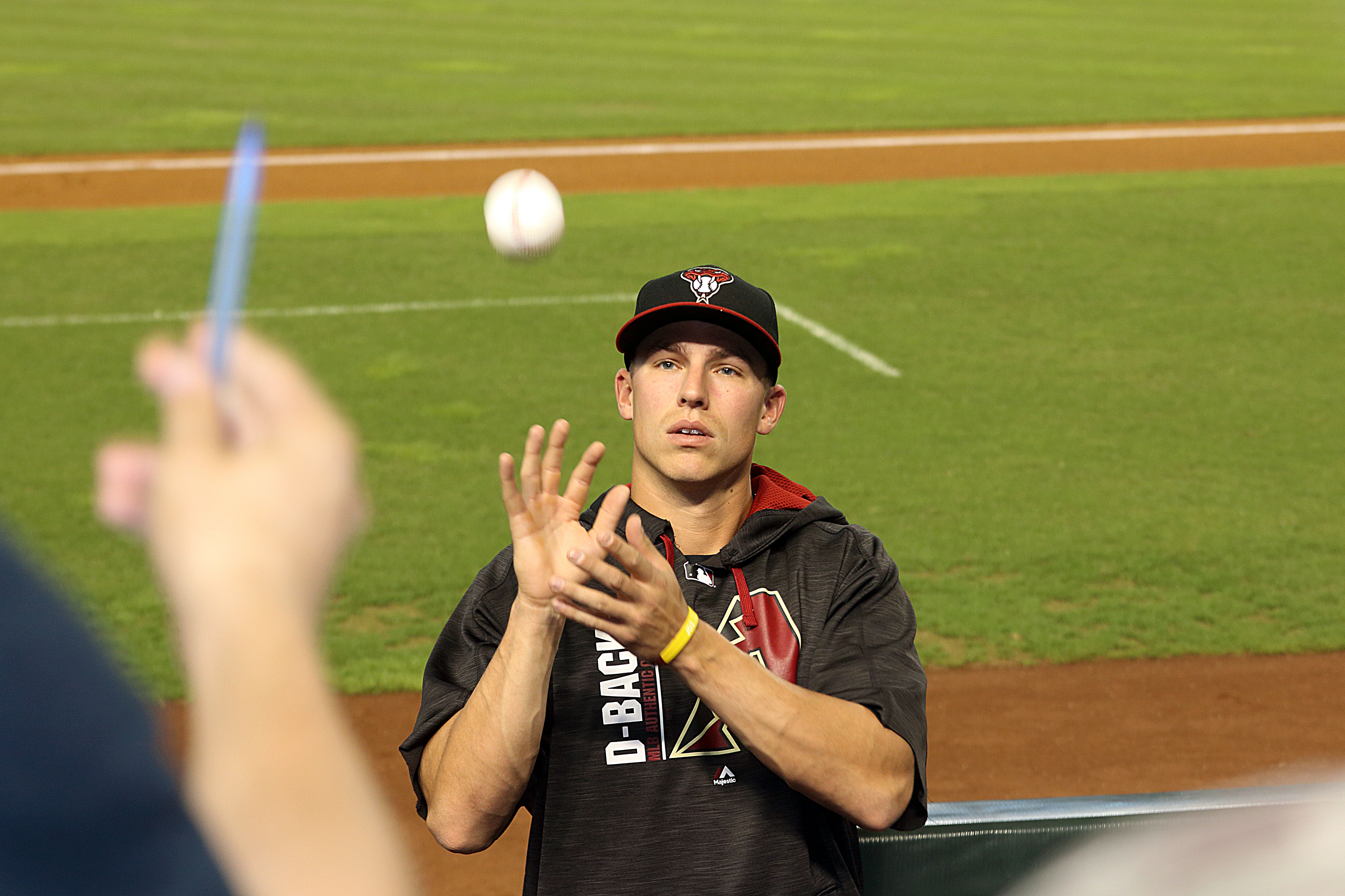 Patrick corbin